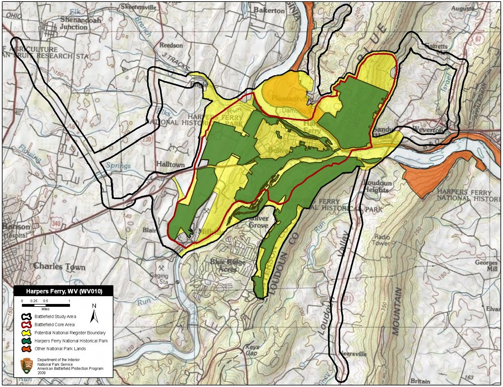 Map of battlefield core and study areas. The Core Area was expanded to include more of Maryland Heights (to take in the first line of Federal defense and engagement with Brig. Gen. Samuel Kershaw’s South Carolina brigade), the western slopes of Schoolhouse Ridge, and the area around Millville. The Study Area was enlarged to include all national park lands related to the battle (excising only Short Hill) and to include the expanded portions of the Core Area.